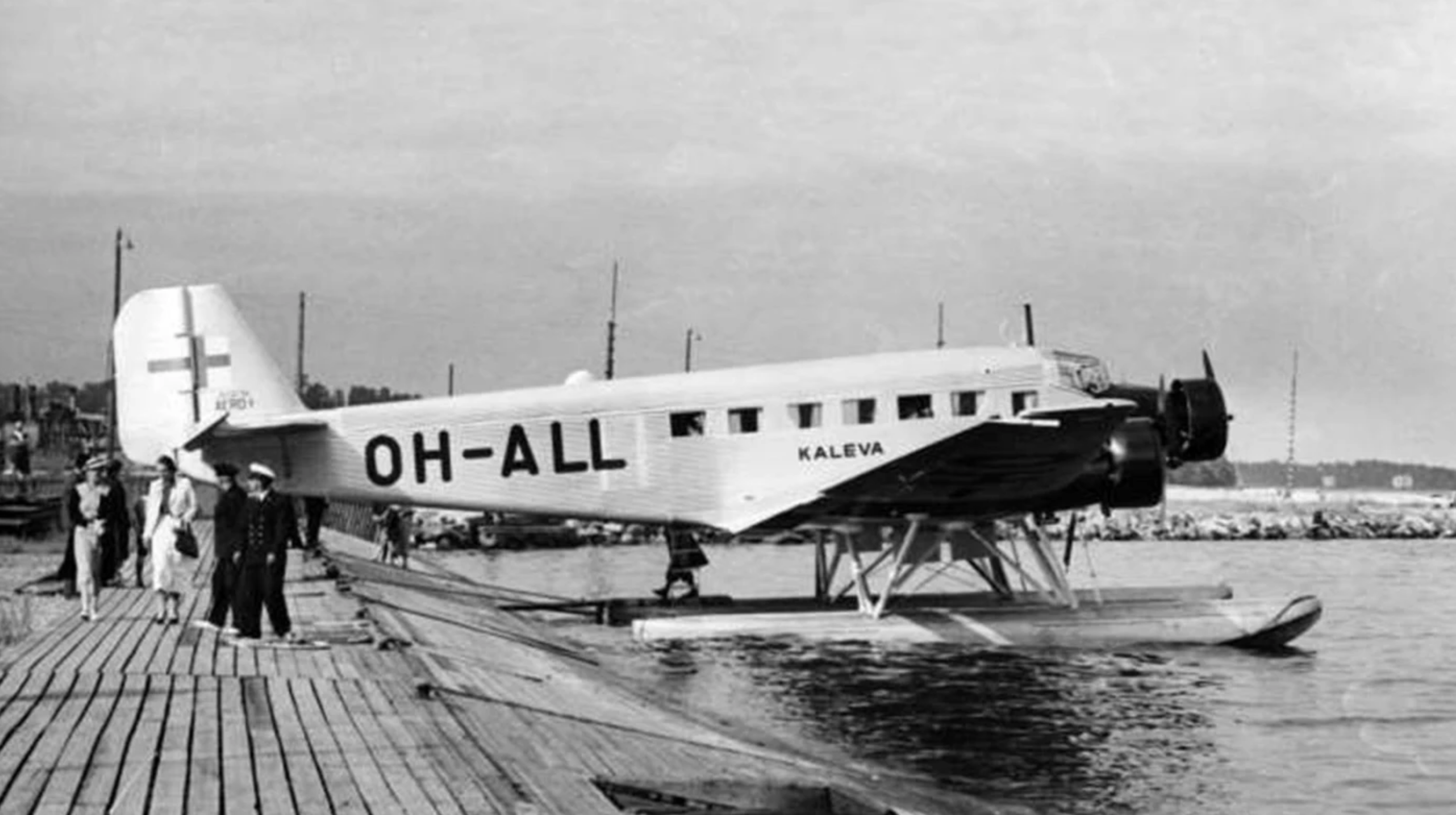 Aero O/Y Junkers Ju 52 OH-ALL in the Katajanokka airport in 1936